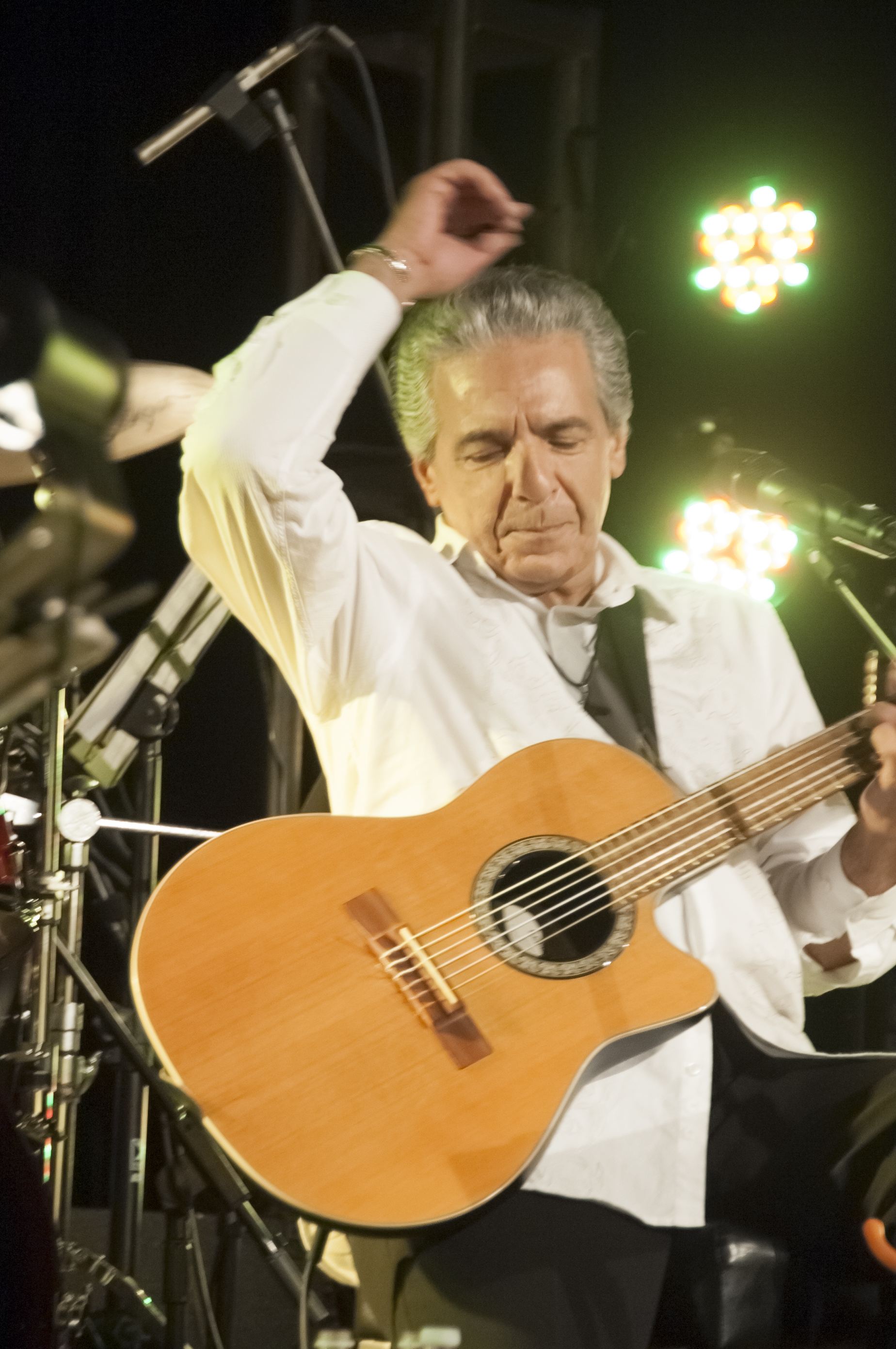 The Persian pop singer FARAMARZ ASLANI in a concert in Calgary, Canada, November 2013. Photo by Dena Barmas / PDN